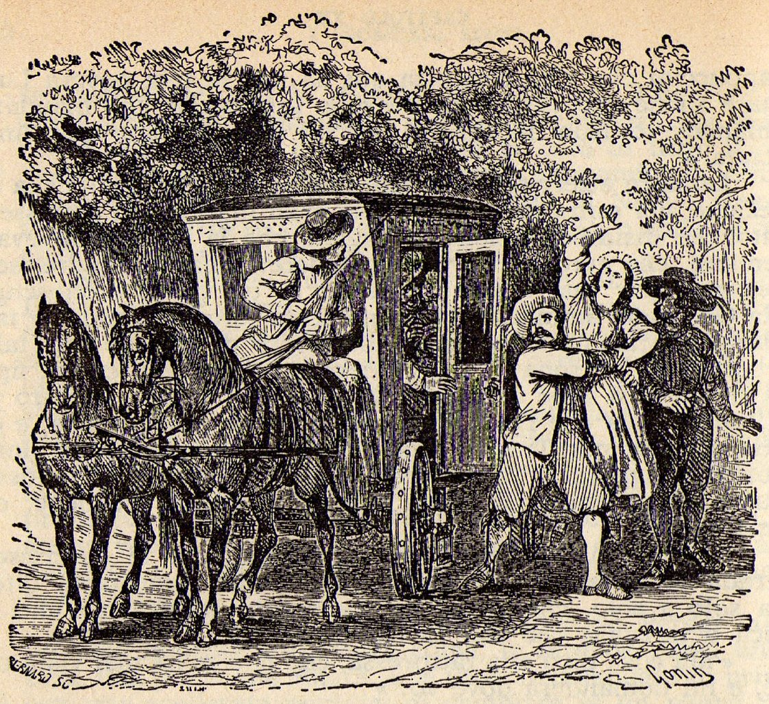 Picture from "I promessi sposi" of the kidnapping of Lucia (chapter 20)